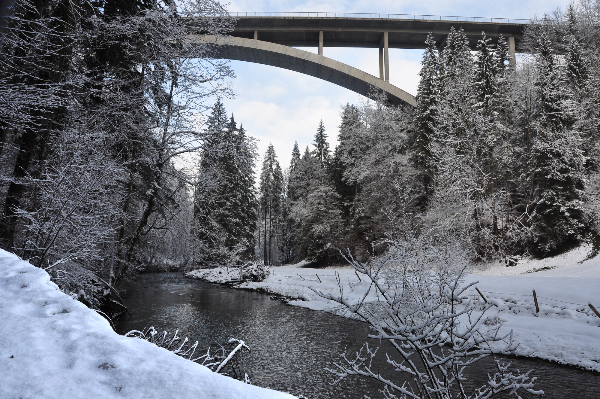 the highway bridge bridging the Obere Argen